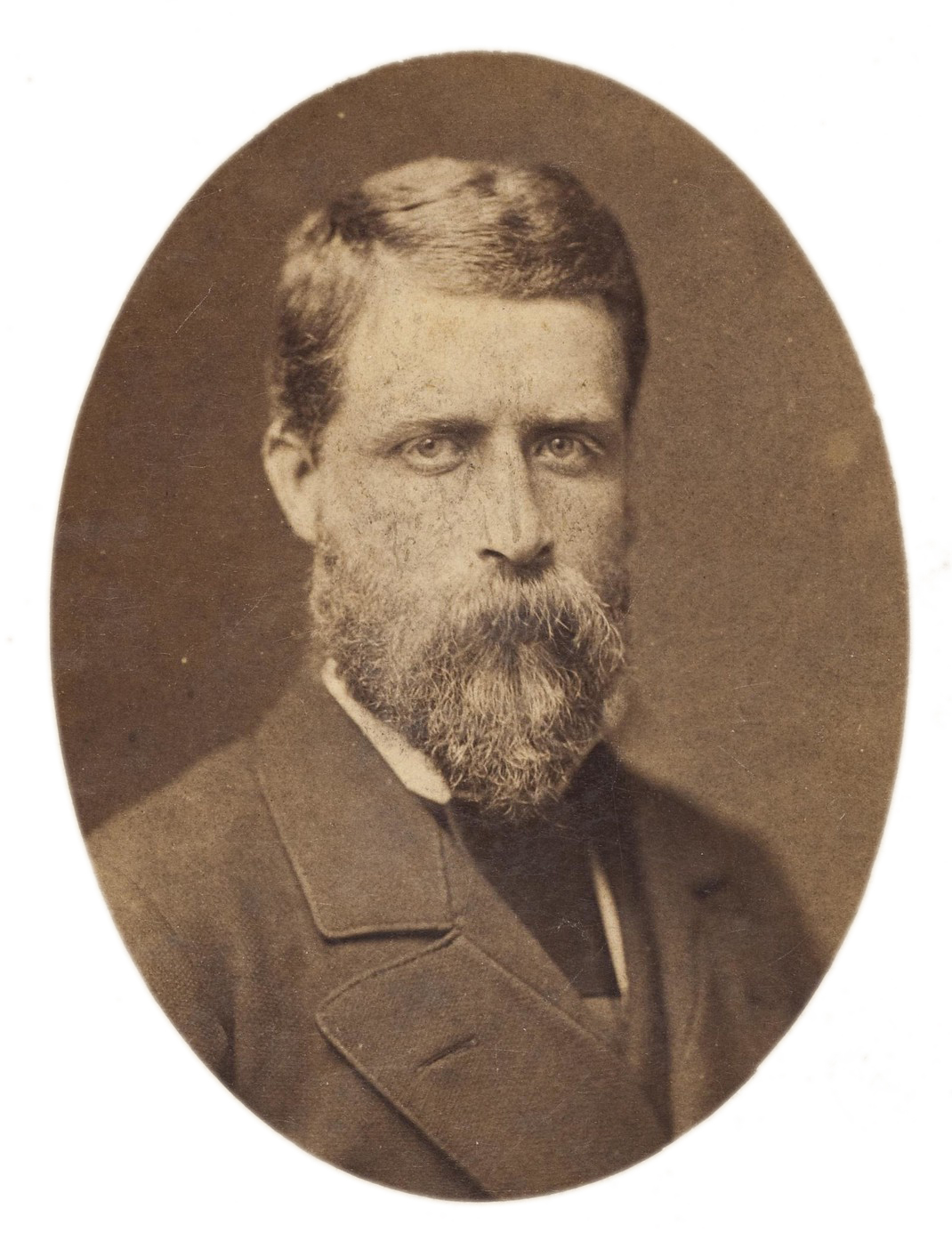 David Gaunson, lawyer defending Ned Kelly.